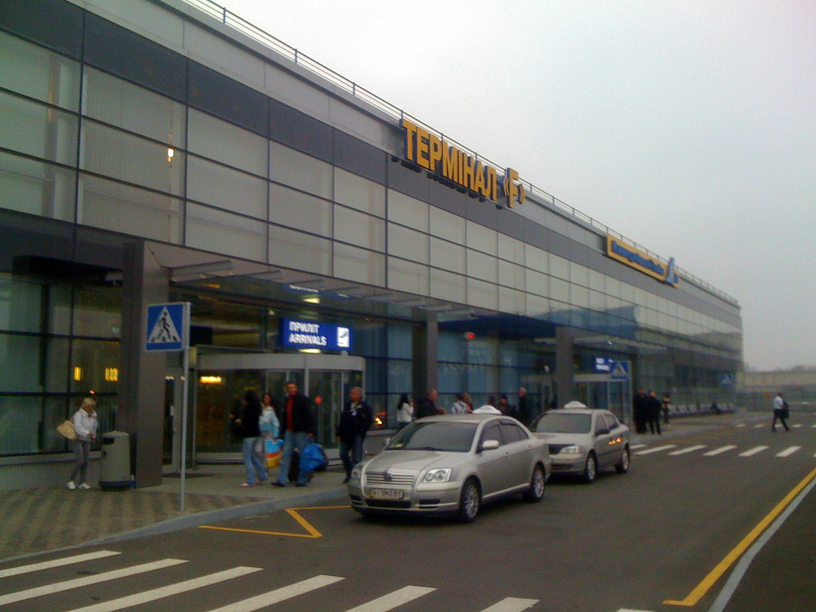 Kiev Boryspil Intl. Terminal F, Kiev, Ukraine